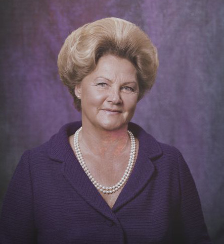 Irja Ketonen in 1981. Colourised and touched up.